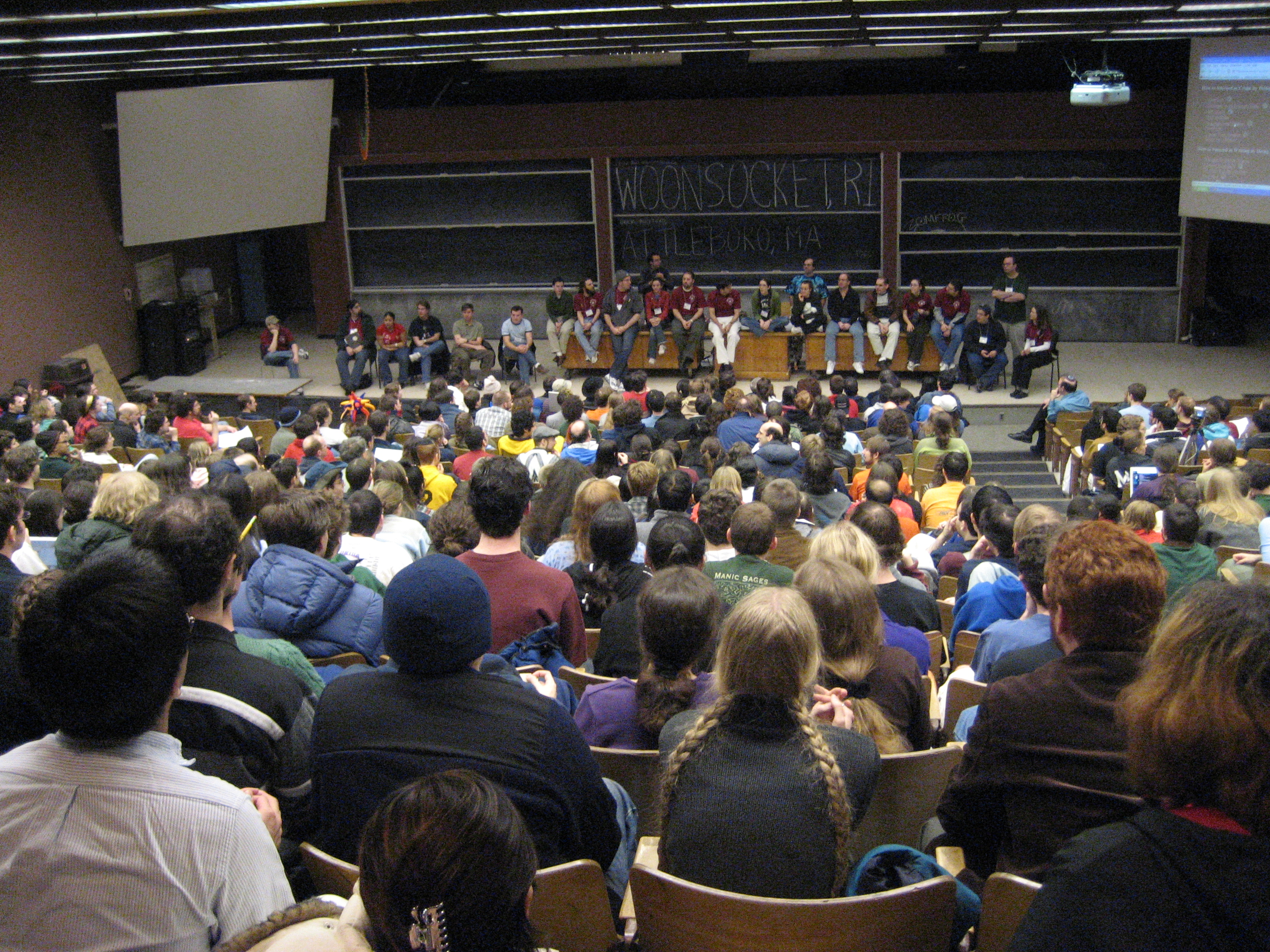 The MIT Mystery Hunt concludes with a wrapup in 26-100. Picture by Barak Michener, username "barakmich" on Flickr. [1]